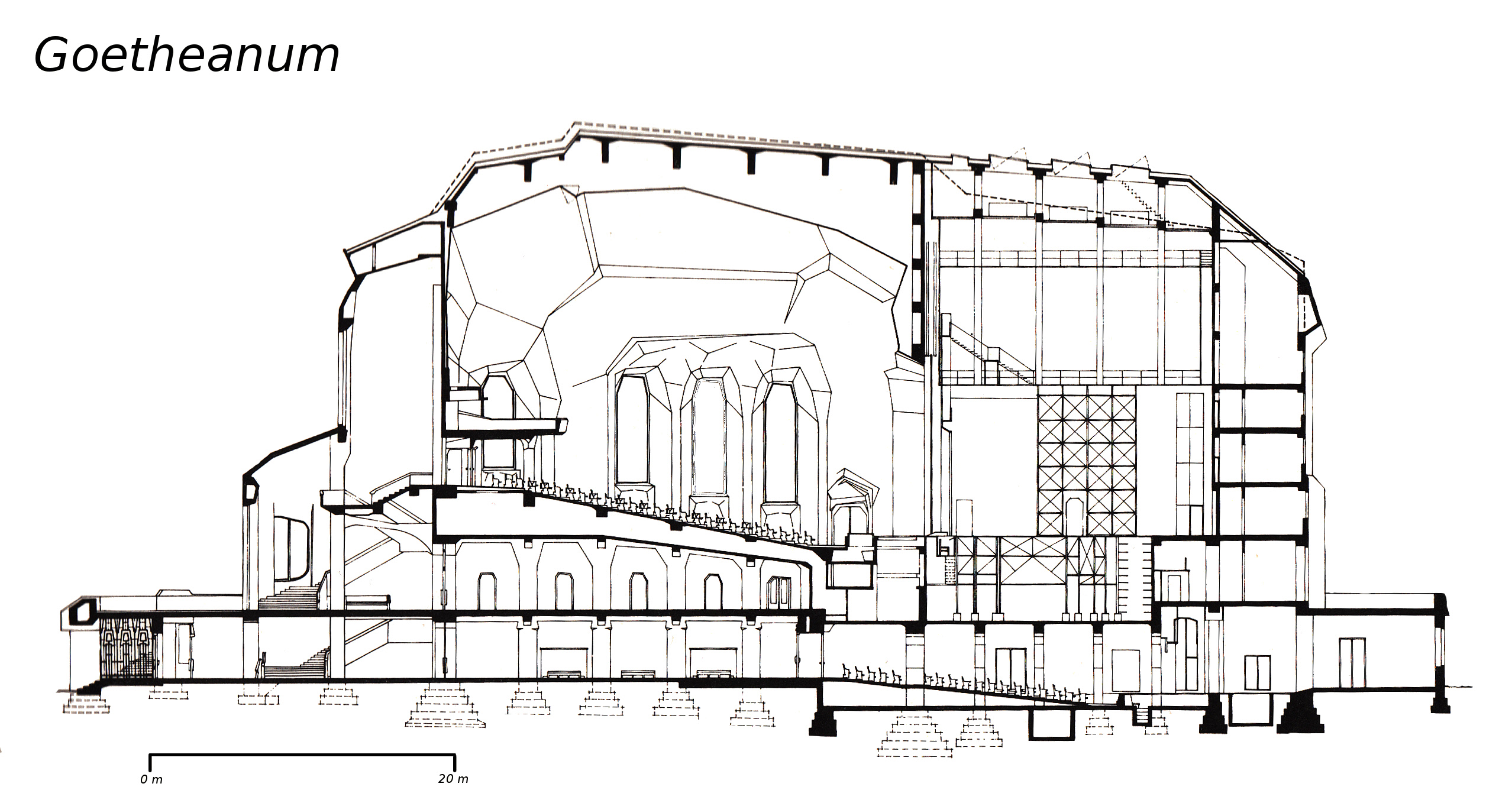 Longitudinal cut of Goetheanum, the dotted linie marks the original planed high of the roof.